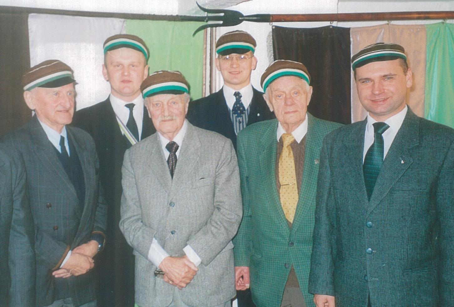 Philisters of Corporation Sarmatia - 1998